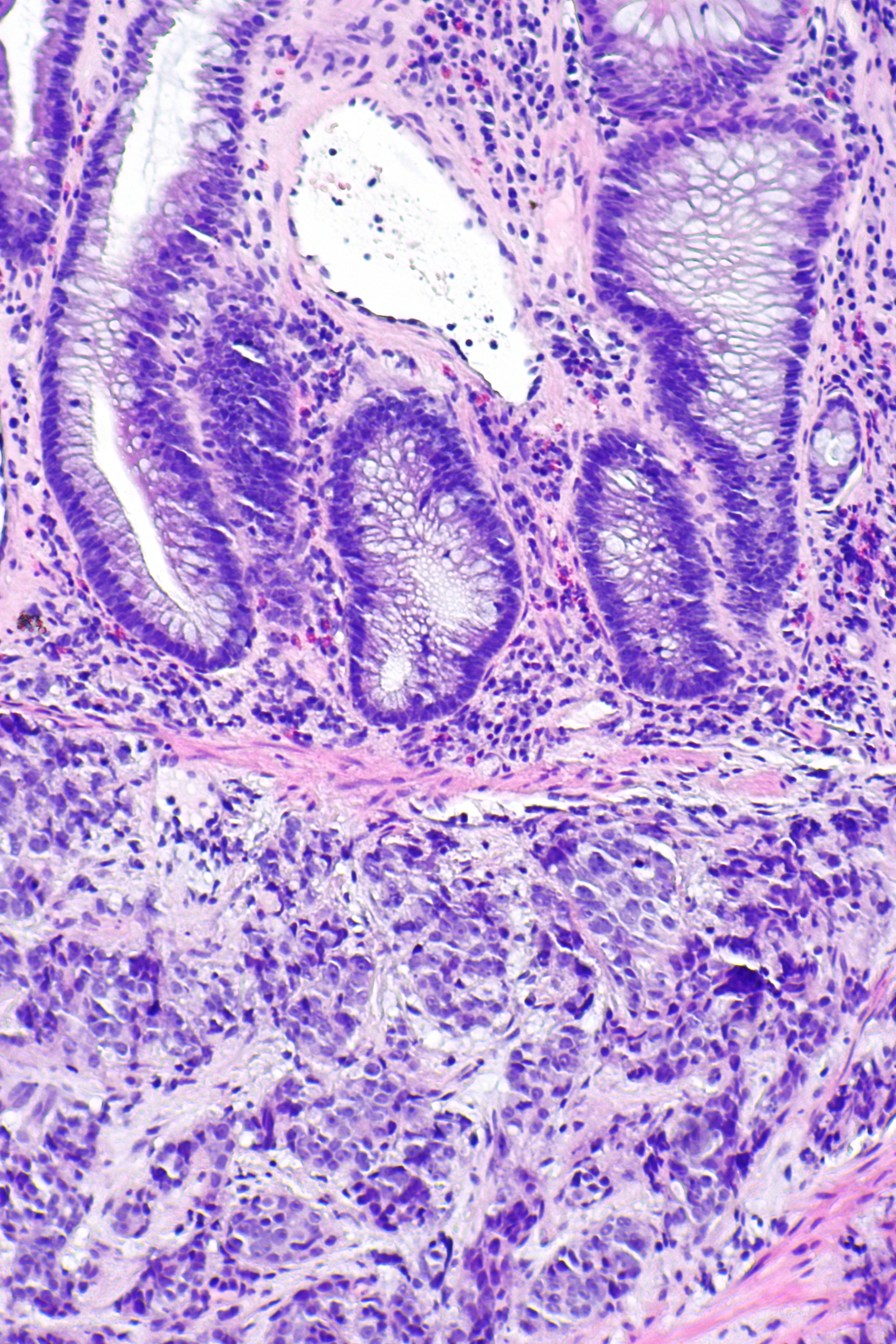 Micrograph showing a biopsy of the rectum with prostatic carcinoma. H&E stain/PSAP/PSA/CK20. Related images Pca in rectum - very low mag. Pca in rectum - low mag. Pca in rectum - intermed. mag. Pca in rectum - high mag. Pca in rectum - very high mag. Pca in rectum - intermed. mag. Pca in rectum - high mag. Pca in rectum - low mag. Pca in rectum - intermed. mag. Pca in rectum - high mag. Pca in rectum - intermed. mag. Pca in rectum - high mag. Pca in rectum - very high mag. Pca in rectum - low mag. Pca in rectum - intermed. mag.